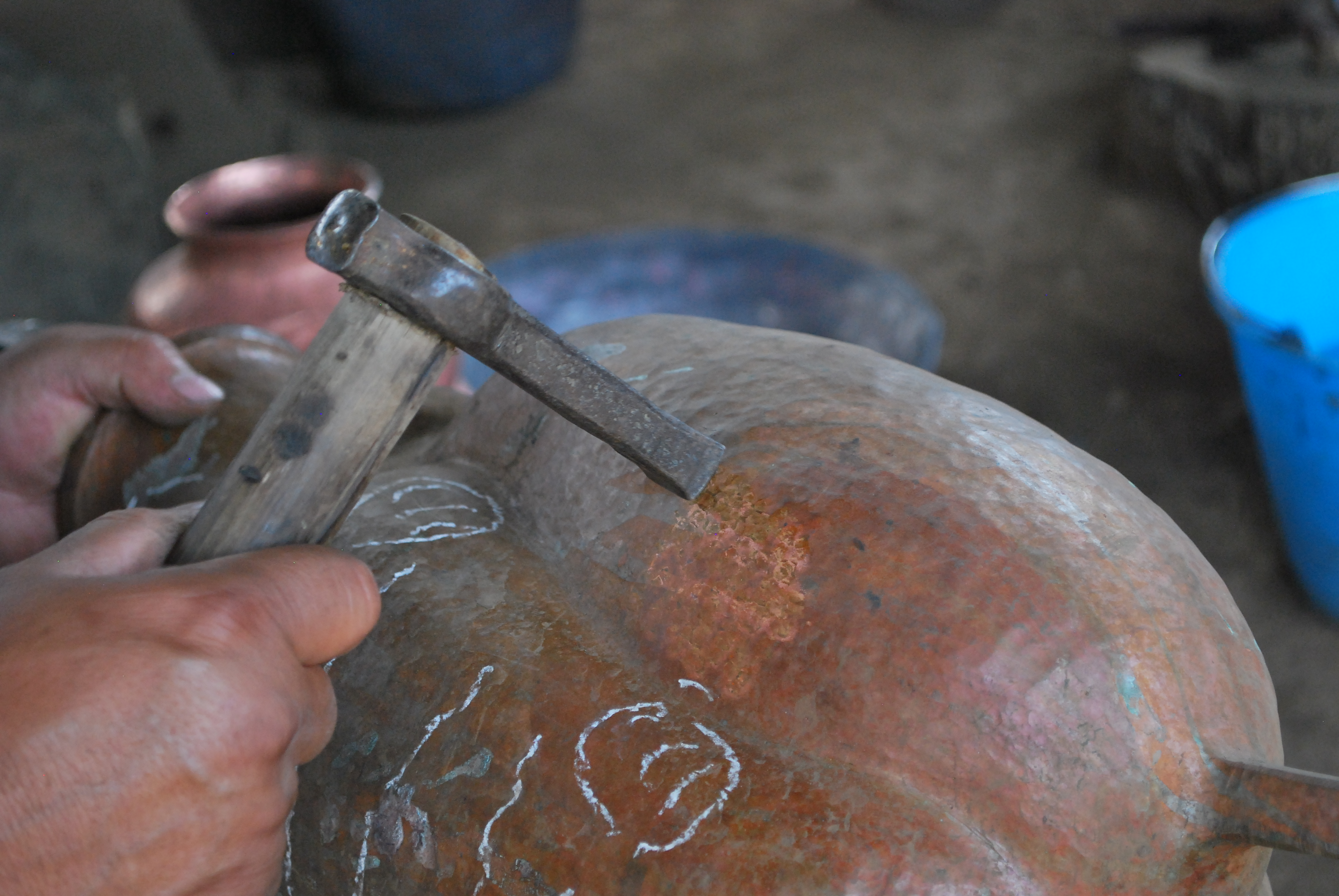 Abdón Punzo working on a copper piece in his workshop in Santa Clara del Cobre, Michoacán